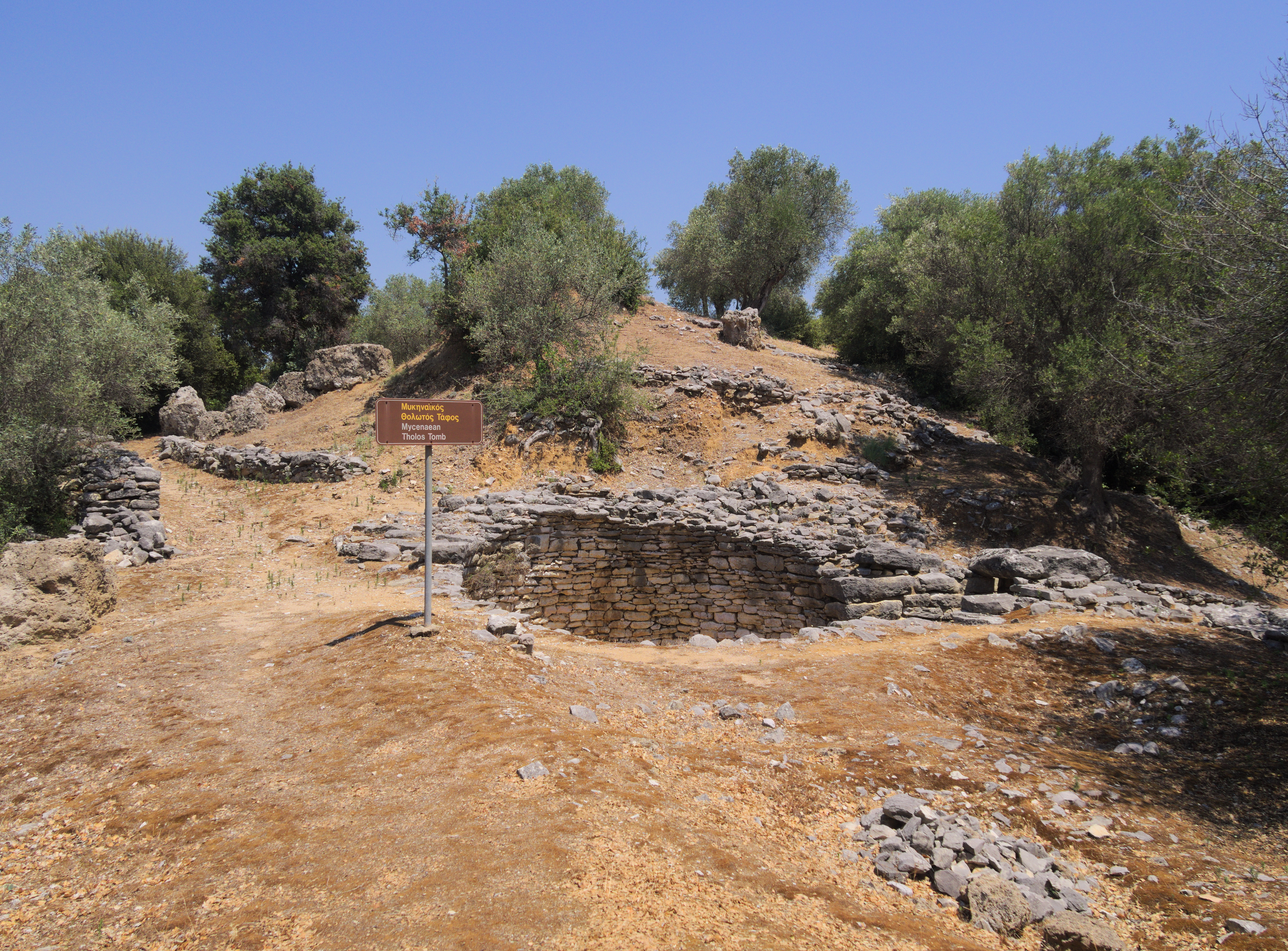 The mycenean archaeological site of Nichoria, located within Messini, Greece. In the centre lies a tholos (beehive) tomb.